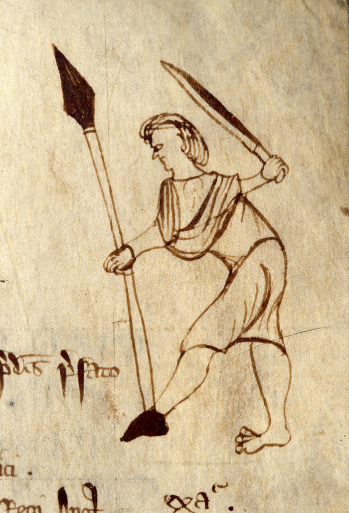 Description: Pen portrait of a warrior from a book of treasury receipts Date: 15th century Our Catalogue Reference: E 36/273 This image is from the collections of The National Archives. Feel free to share it within the spirit of the Commons. For high quality reproductions of any item from our collection please contact our image library.